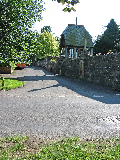 Lychgate of St Mary the Virgin's parish churchyard, Ashwell, Rutland